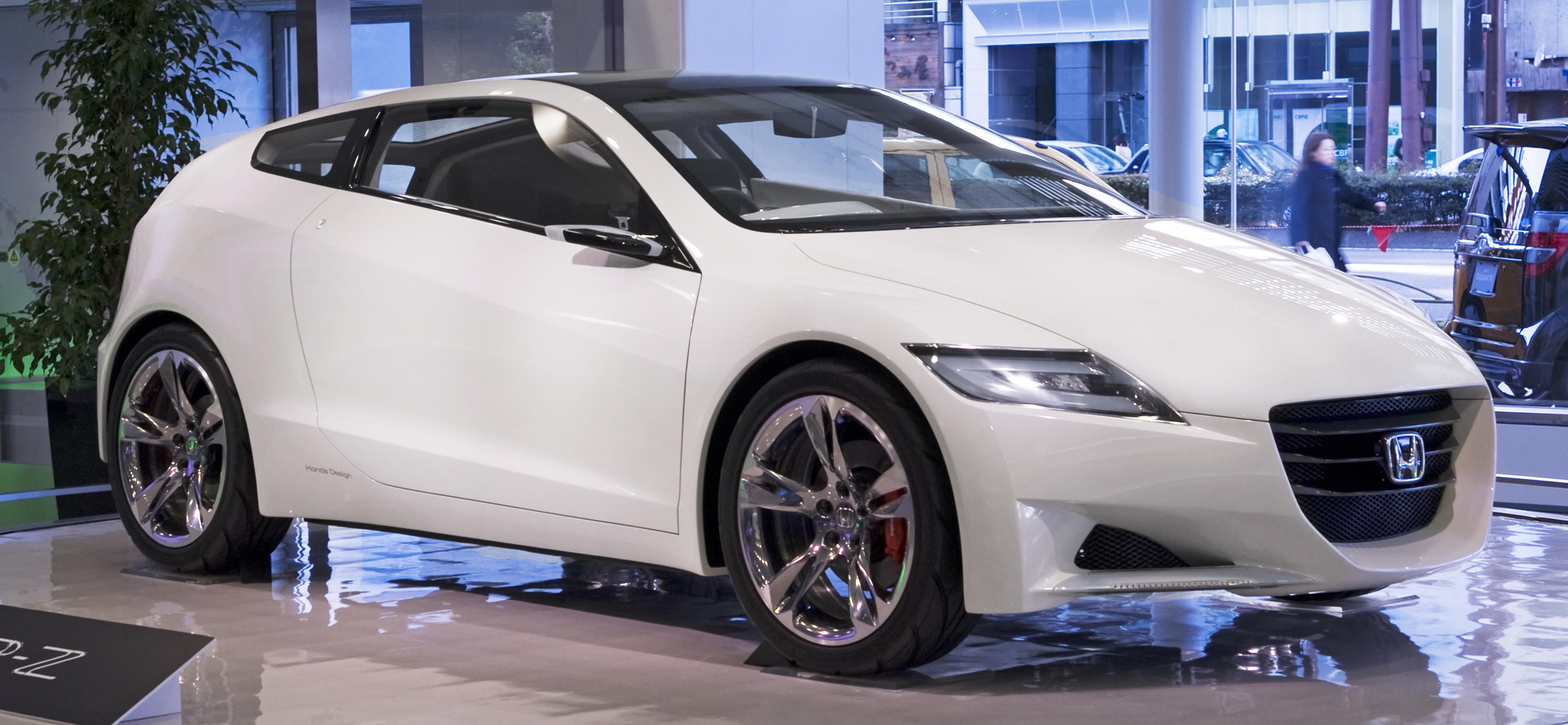 Honda CR-Z photographed in Honda Welcome Plaza Aoyama (Minato, Tokyo)